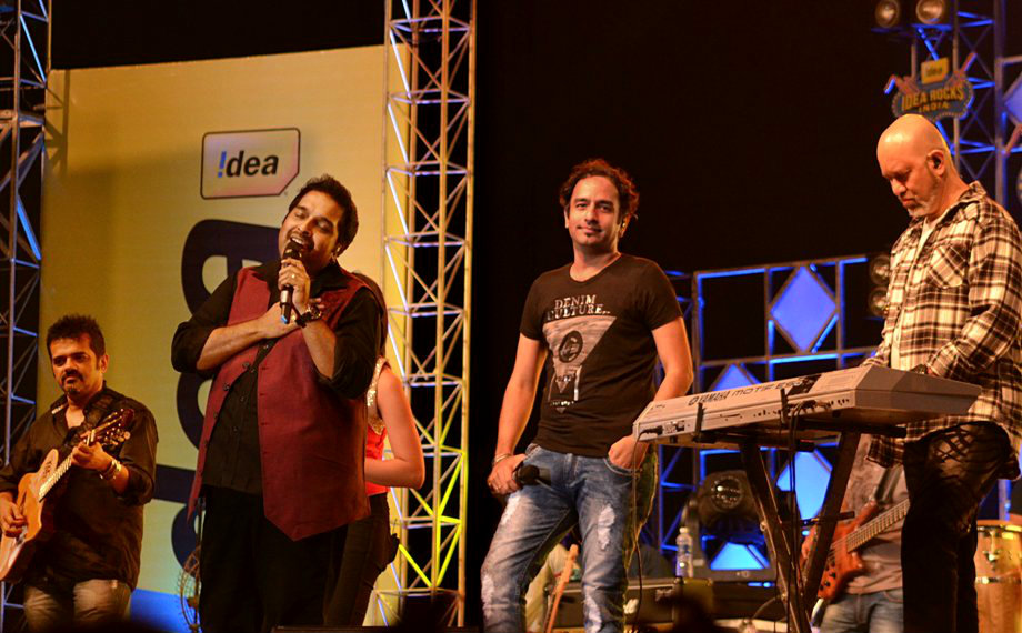 Shankar Mahadevan, Ehsaan Noorani and Loy Mendonsa, the Shankar-Ehsaan-Loy trio at Idea Rocks India at NICE Grounds, Bangalore, India. (photo - Jim Ankan Deka)